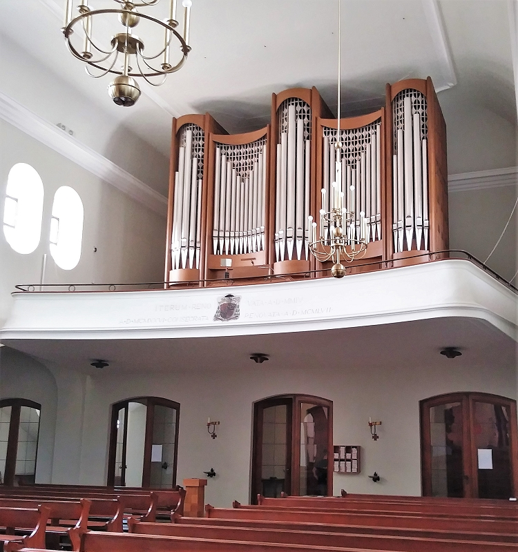 St. Michael (Bürstadt)